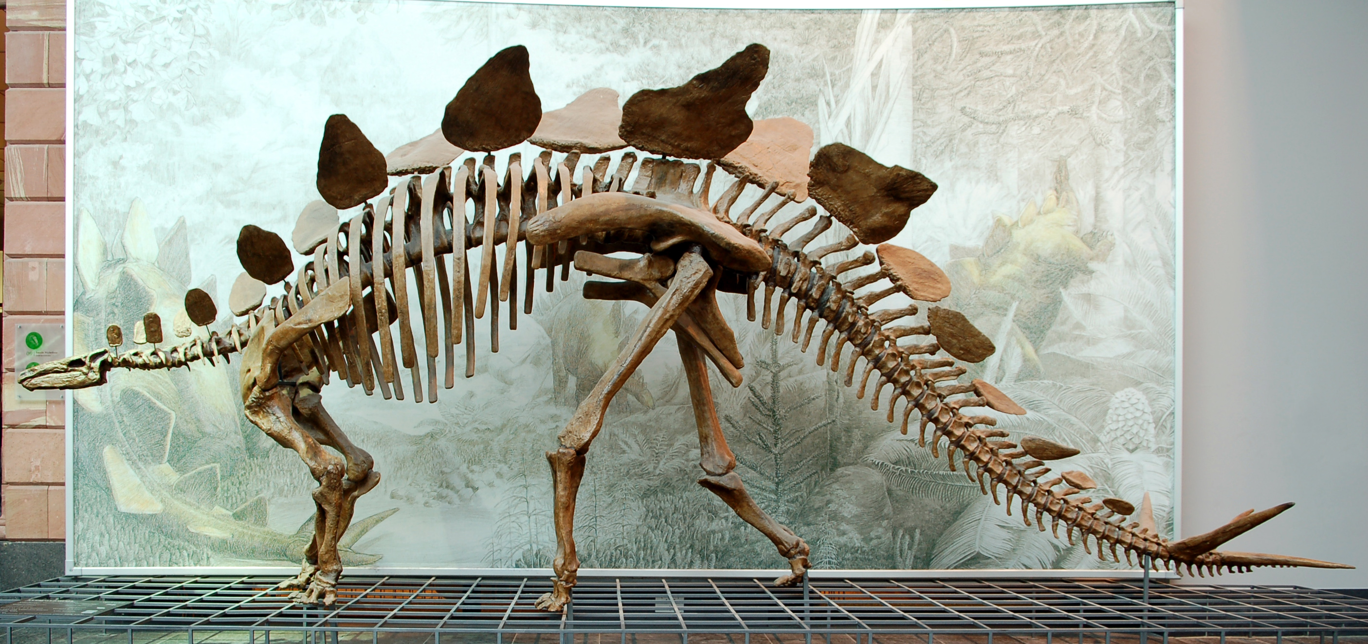 Cast of a Stegosaurus stenops skeleton (AMNH 650) in the Senckenberg Museum in Frankfurt am Main